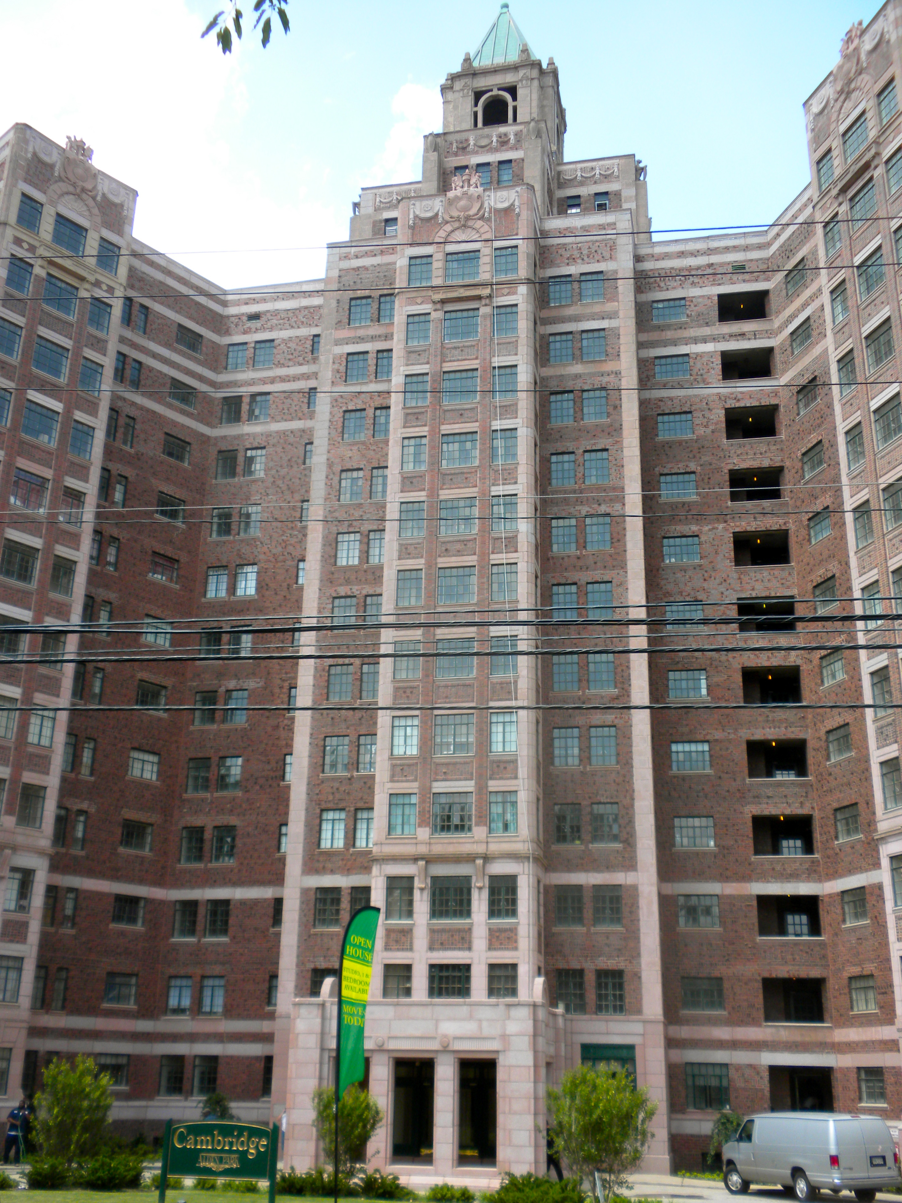 The Cambridge building of Alden Park Manor on NRHP since August 15, 1980. On School House Lane and Wissahickon Avenue in East Falls neighborhood of Northwest Philadelphia.